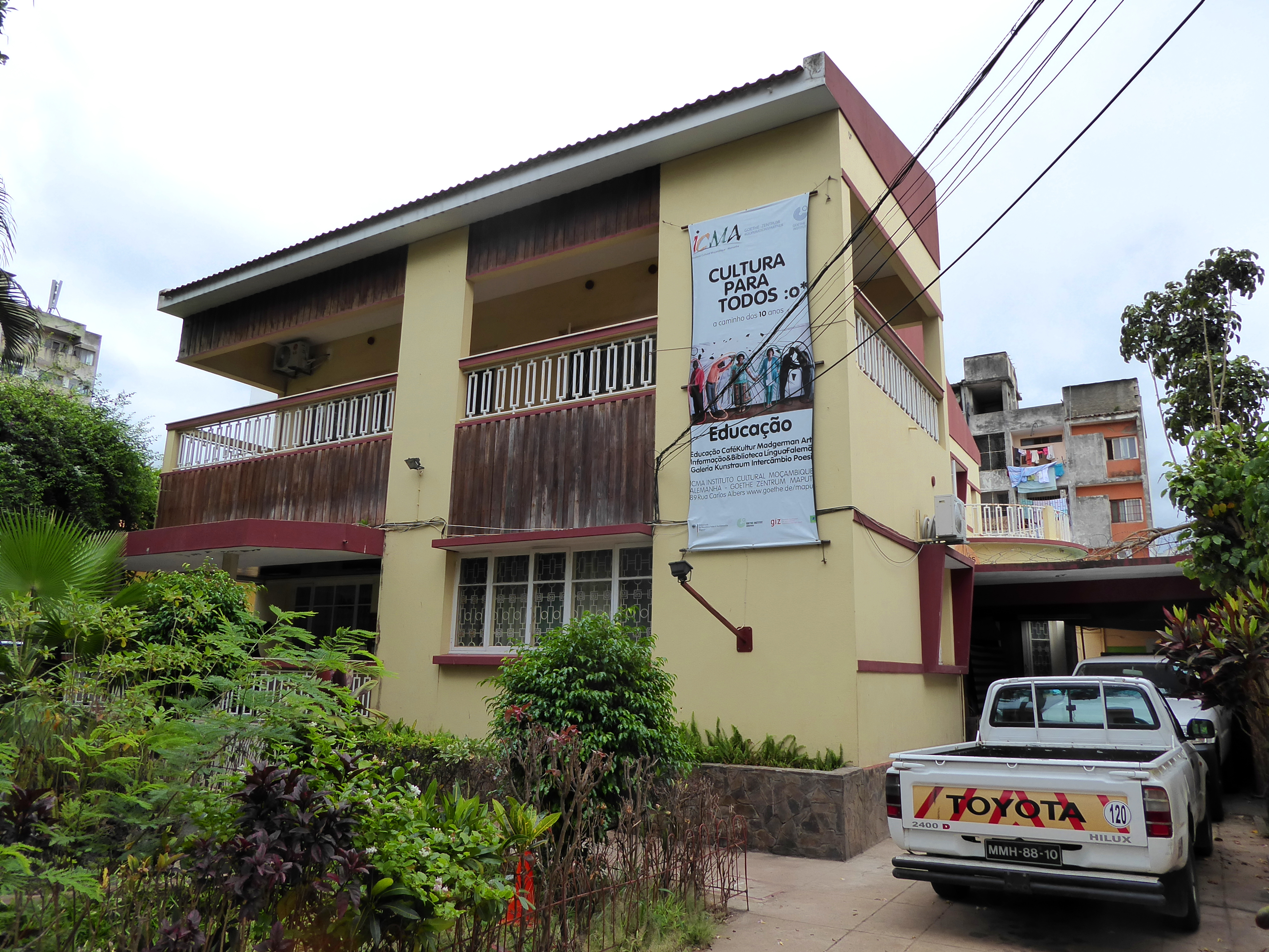 Building of the Instituto Cultural Moçambique-Alemanha, Maputo, Mozambique